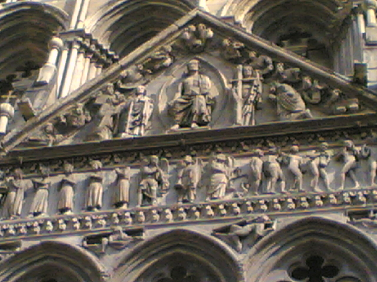 Detail of the Cathedral's facade, Ferrara